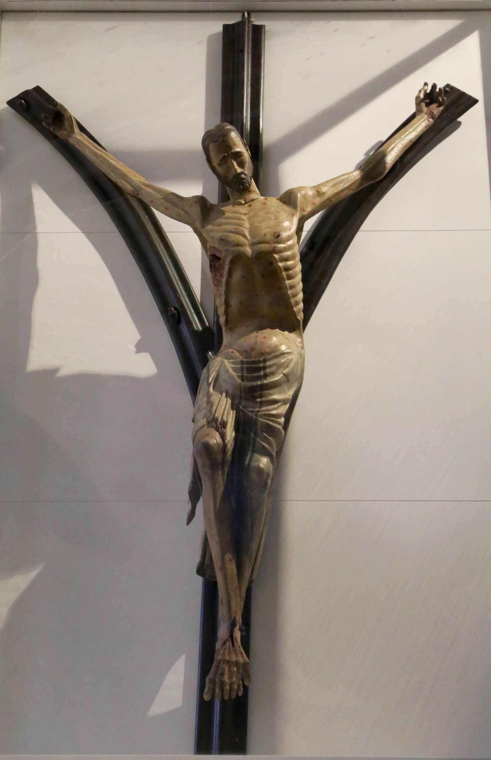 Interior of St. George's Parish Church (Piran)